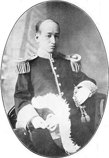 Naotada Ii